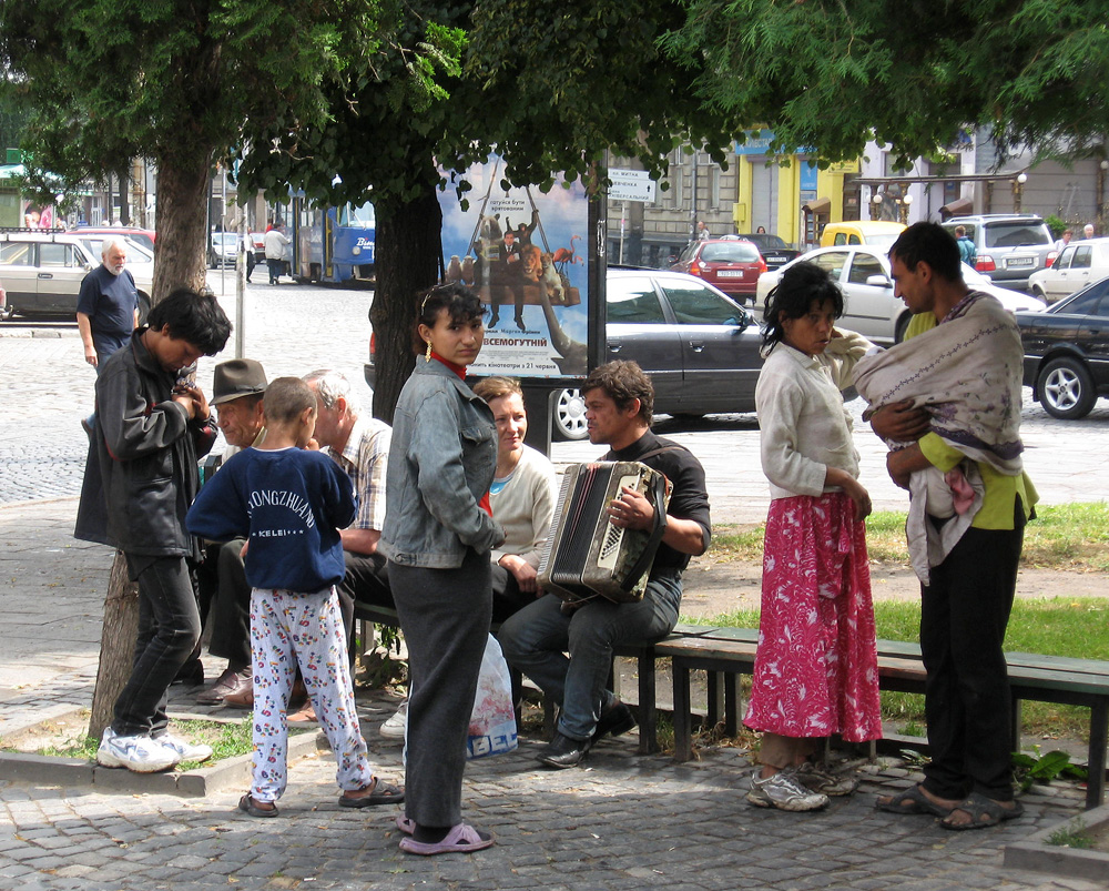 Gypsi people in Lviv, Ukraine